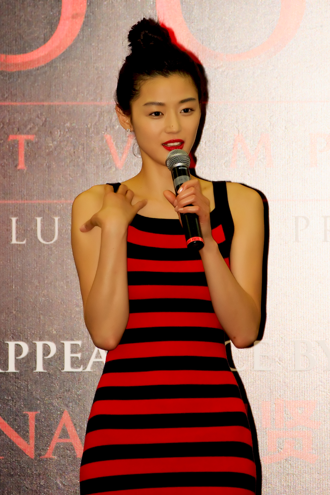 Korean actress Jun Ji-Hyun at a promotinal event for the film Blood: The Last Vampire in 2009.